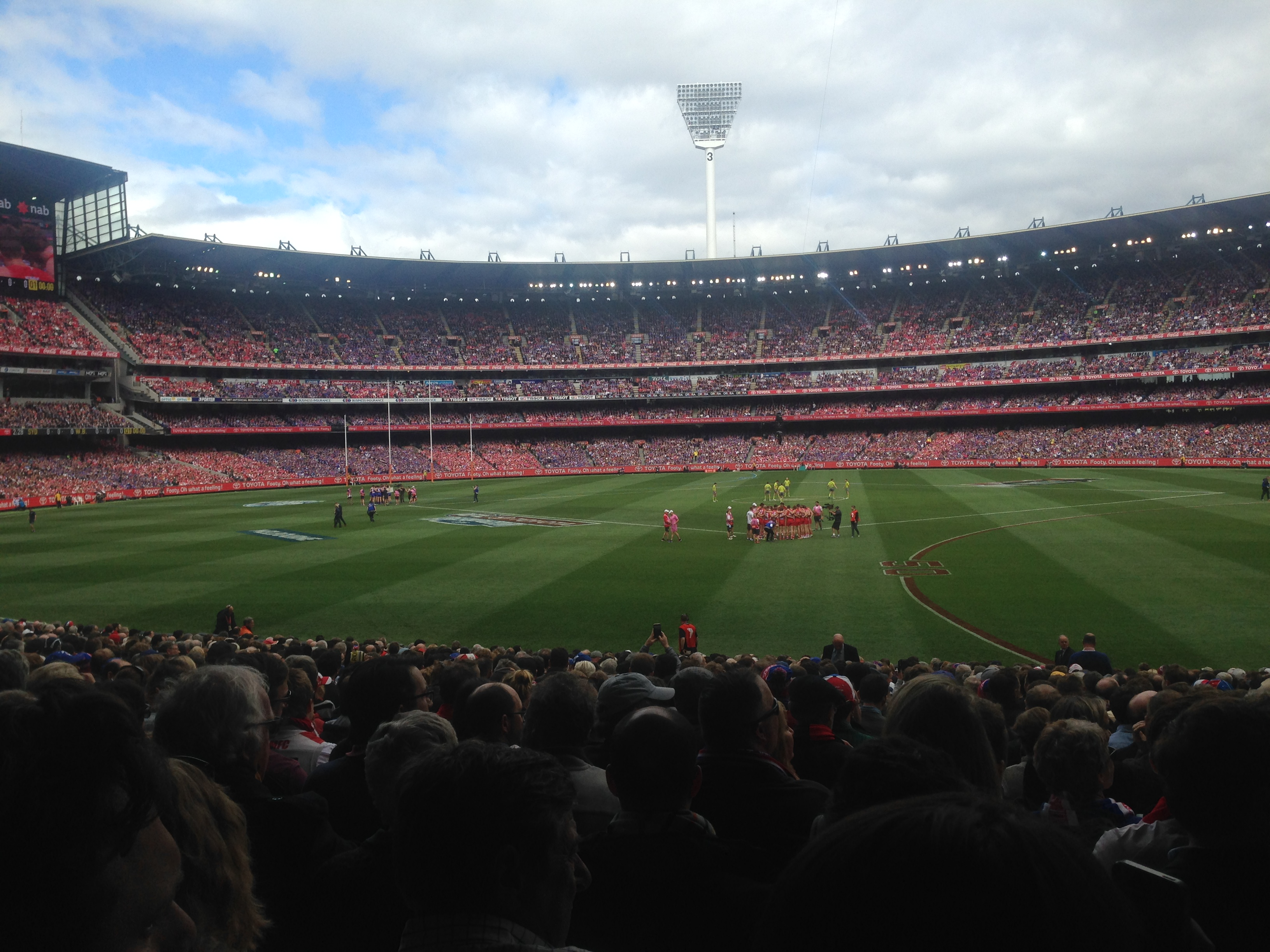 2016 AFL Grand Final. Both teams are in their huddles shortly before the first bounce.